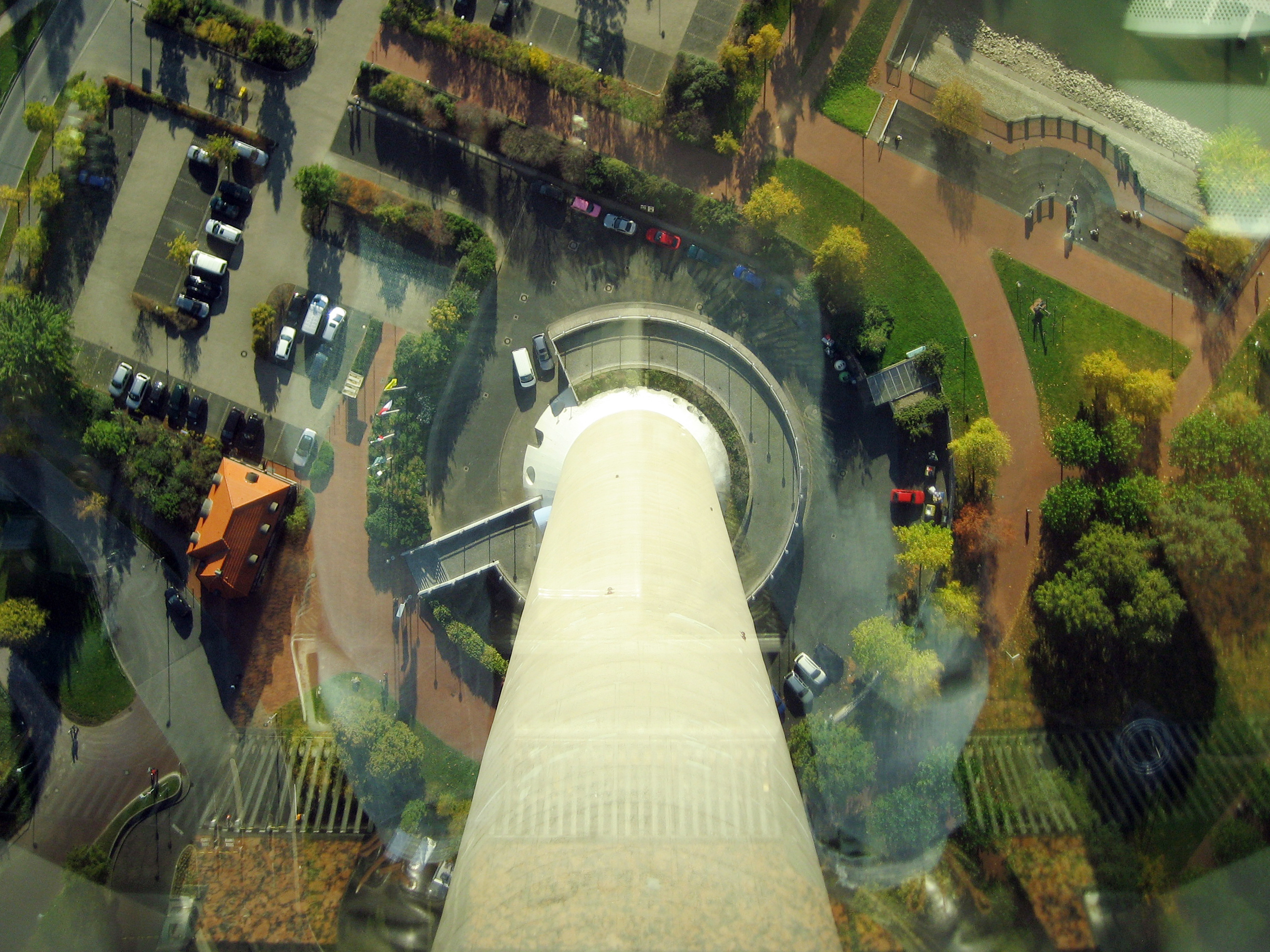 Rheinturm, Düsseldorf